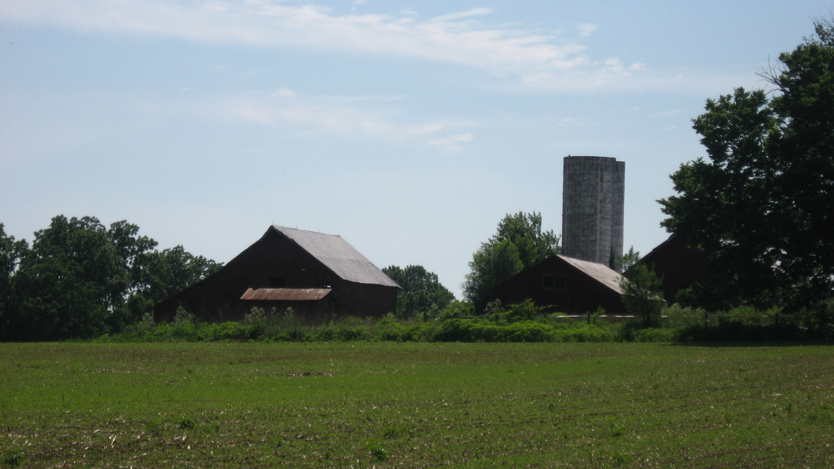 Roadside view of the Kellum-Jessup-Chandler Farm, located at 6690 S. 1025E (White Like Creek Road) southeast of Plainfield in Guilford Township, Hendricks County, Indiana, United States. Built in 1862, the farm complex is listed on the National Register of Historic Places.